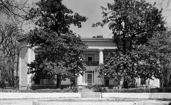 T. R. R. Cobb House — at 194 Prince Avenue, Athens, Clarke County, Georgia. Image: HABS—Historic American Buildings Survey of Georgia, cropped.